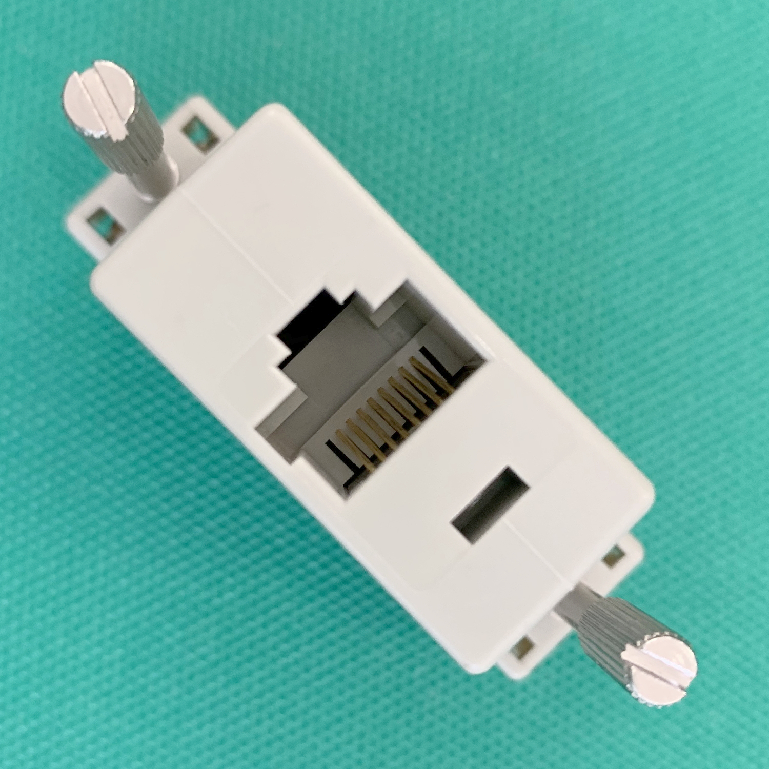 8P8C Female Connector